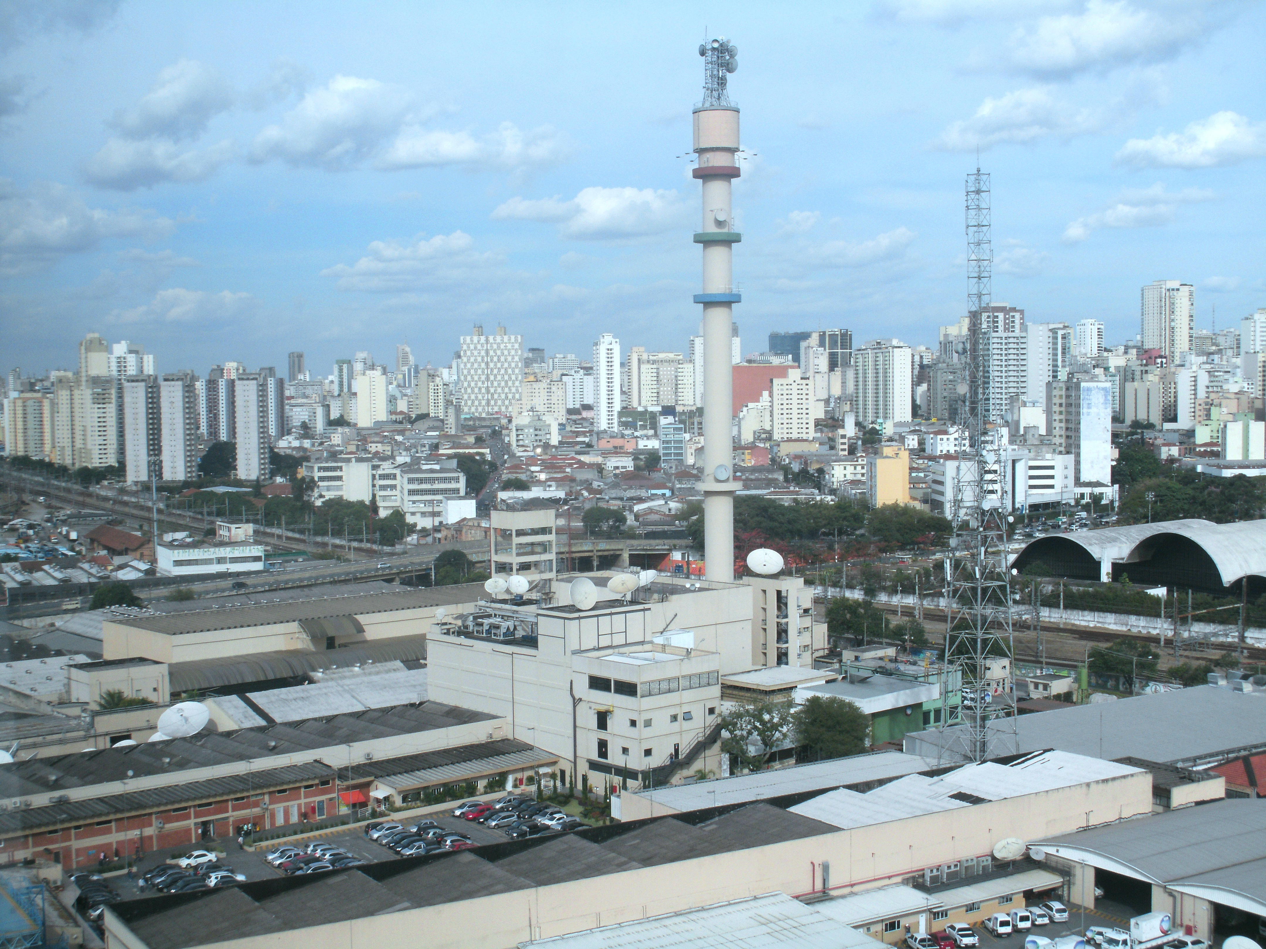 Headquarters of RecordTV, channel 7 of São Paulo.